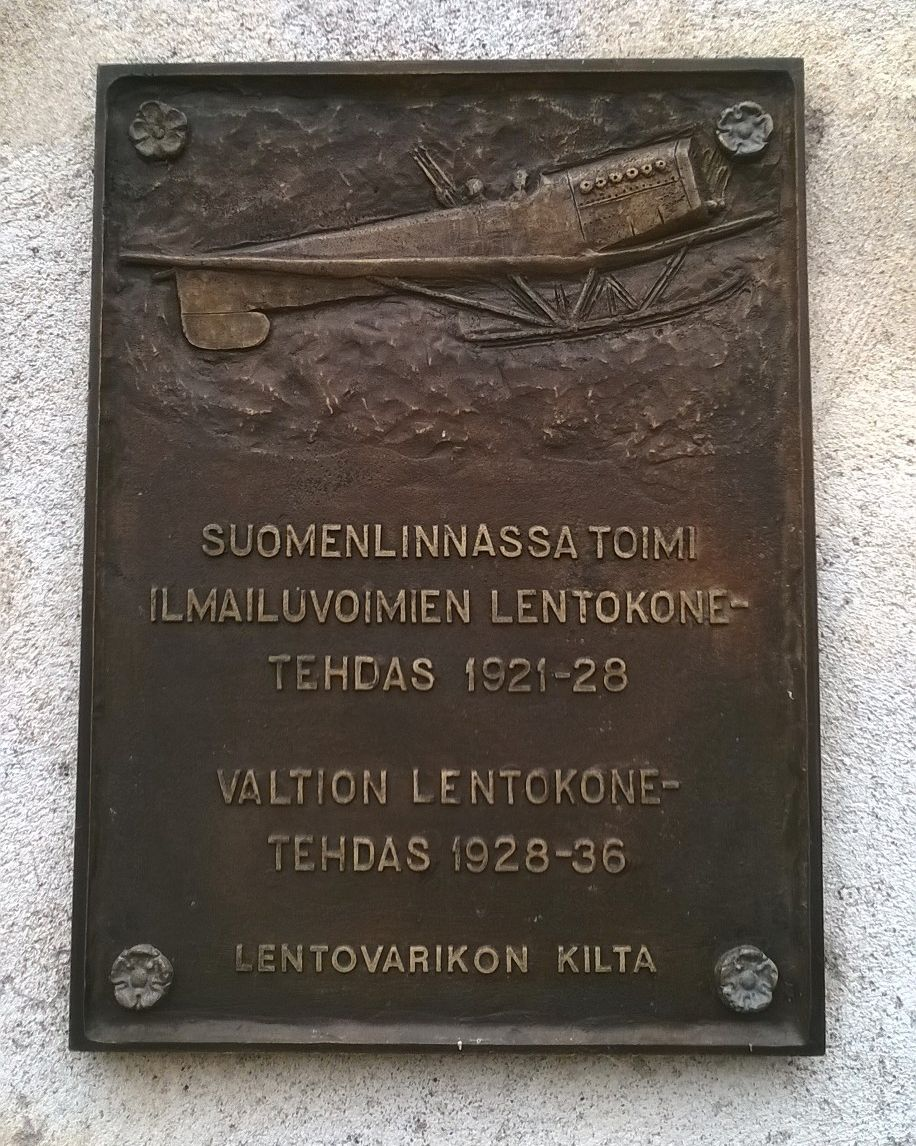 Plaque of Valtion lentokonetehdas (State aircraft factory) in Suomenlinna (building B5).